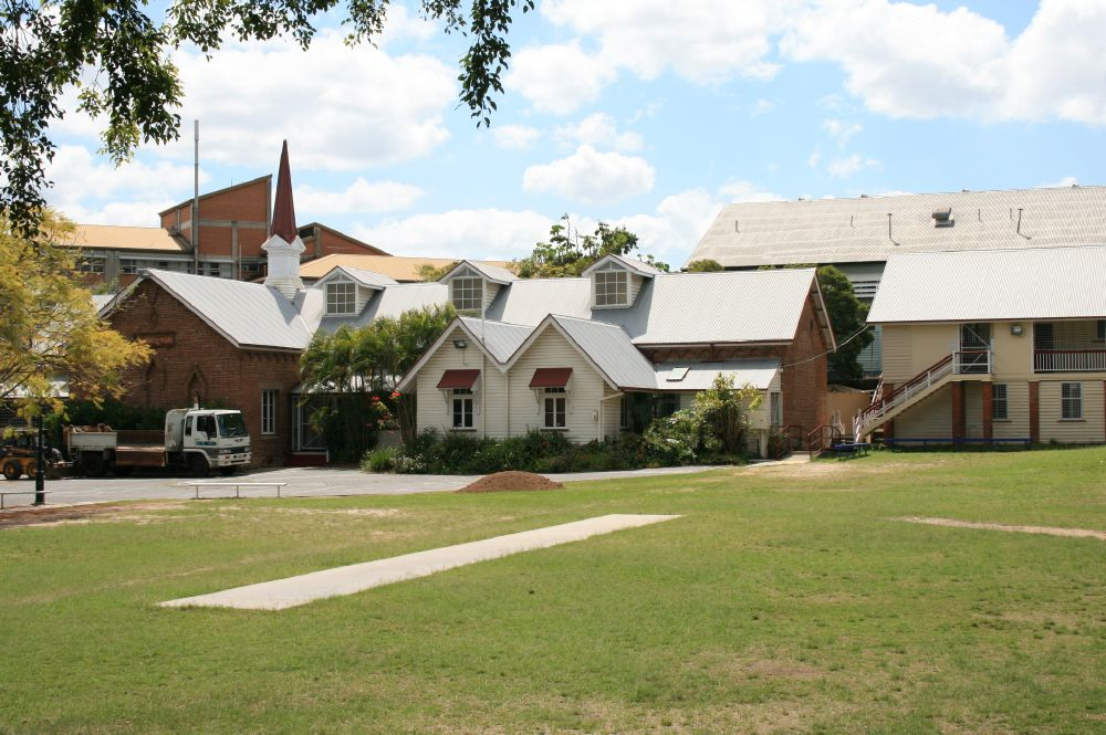 A picture of the Brisbane Central State School